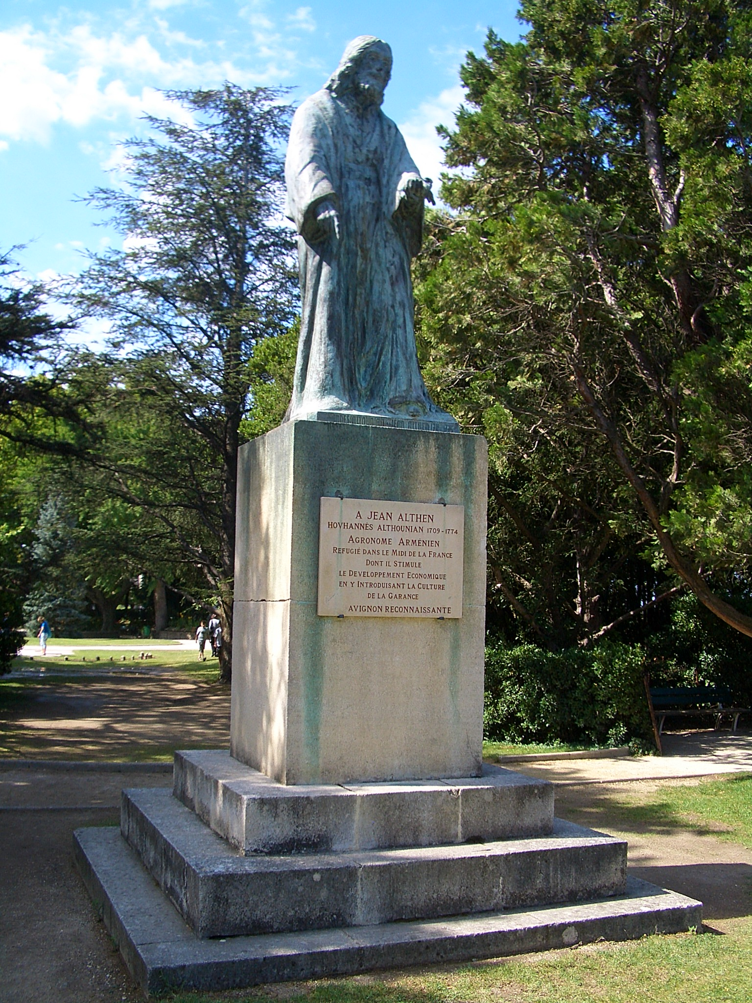 Monument to Jean Althen (Hovannes Althounian, 1709-1774} in Avignon